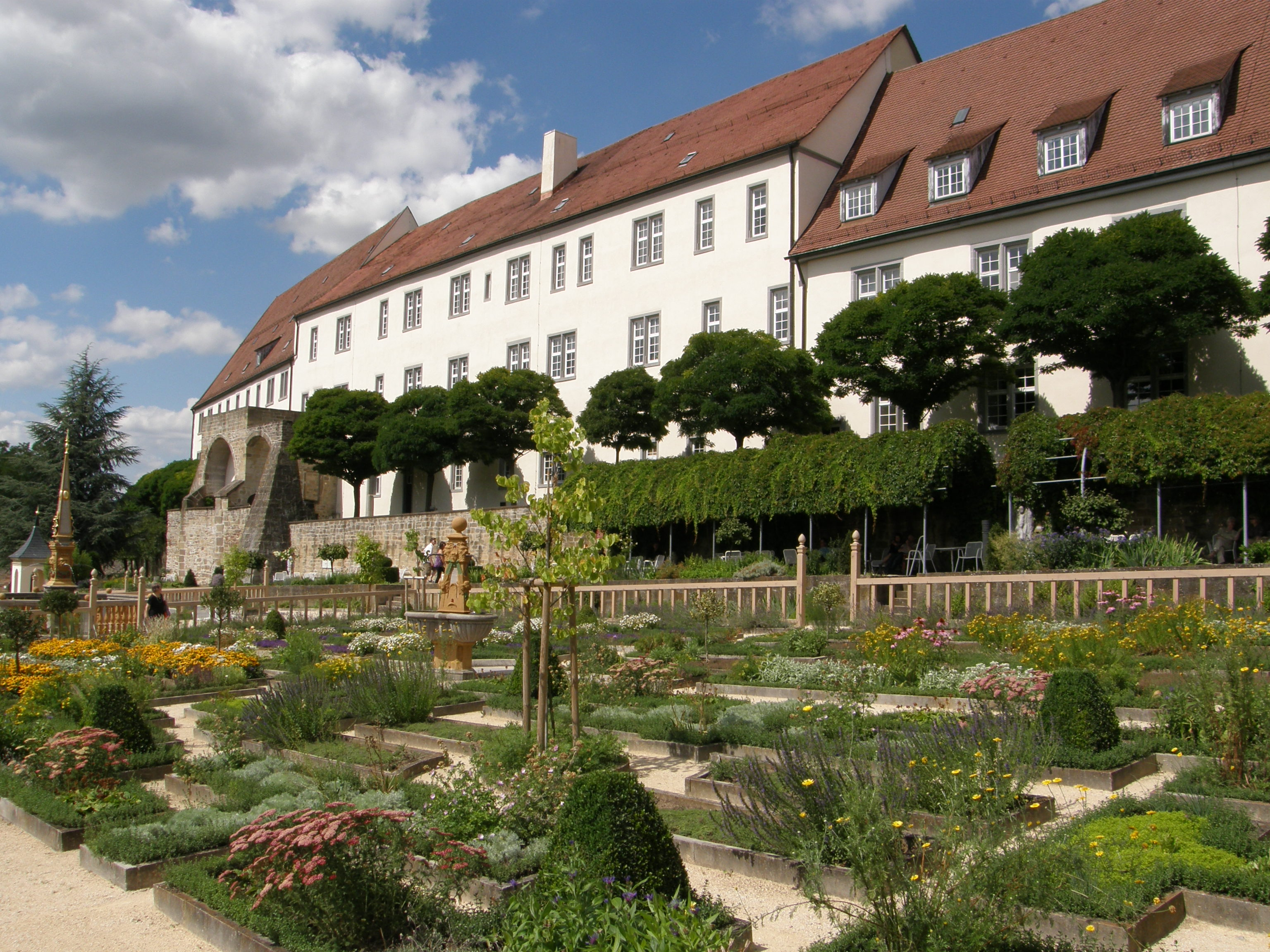 The Pomeranzen Garden, Leonberg, Germany